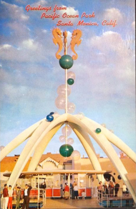 Postcard photo of the entrance at Pacific Ocean park, Santa Monica, California.